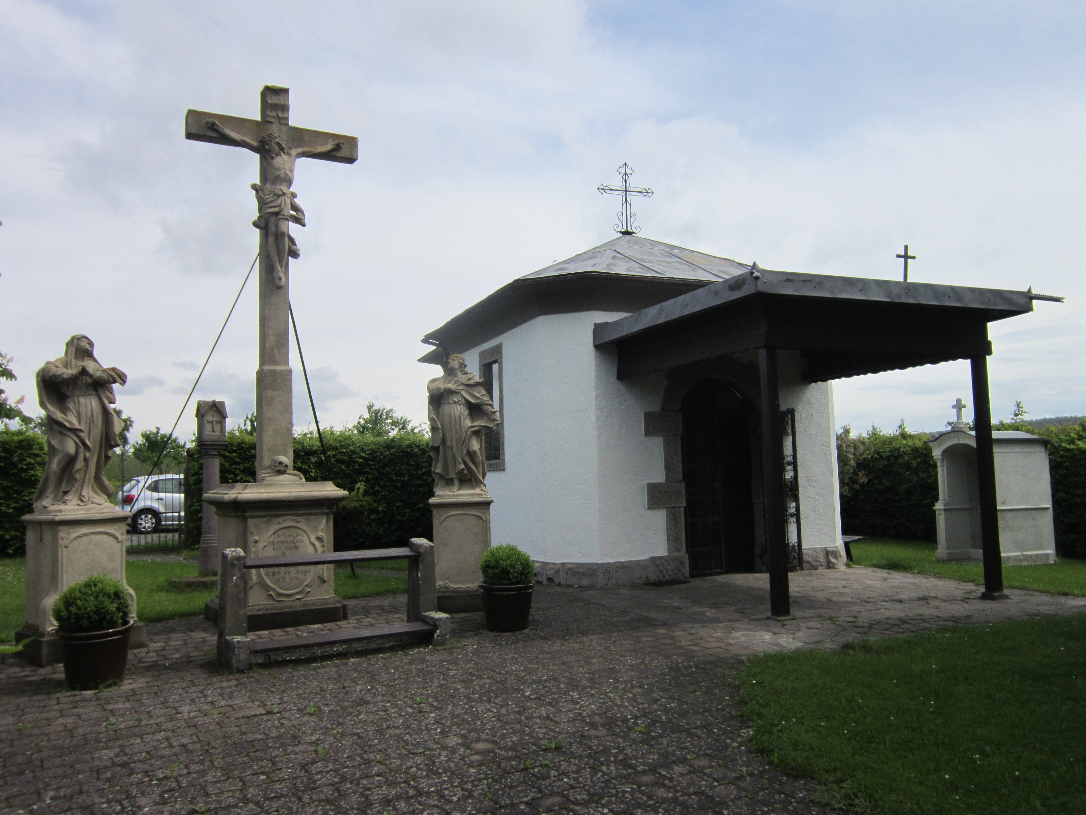 "Sieben-Schmerz-Kapelle" in Wollbach, a quarter of the German town of Burkardroth in Lower Franconia (Bavaria)